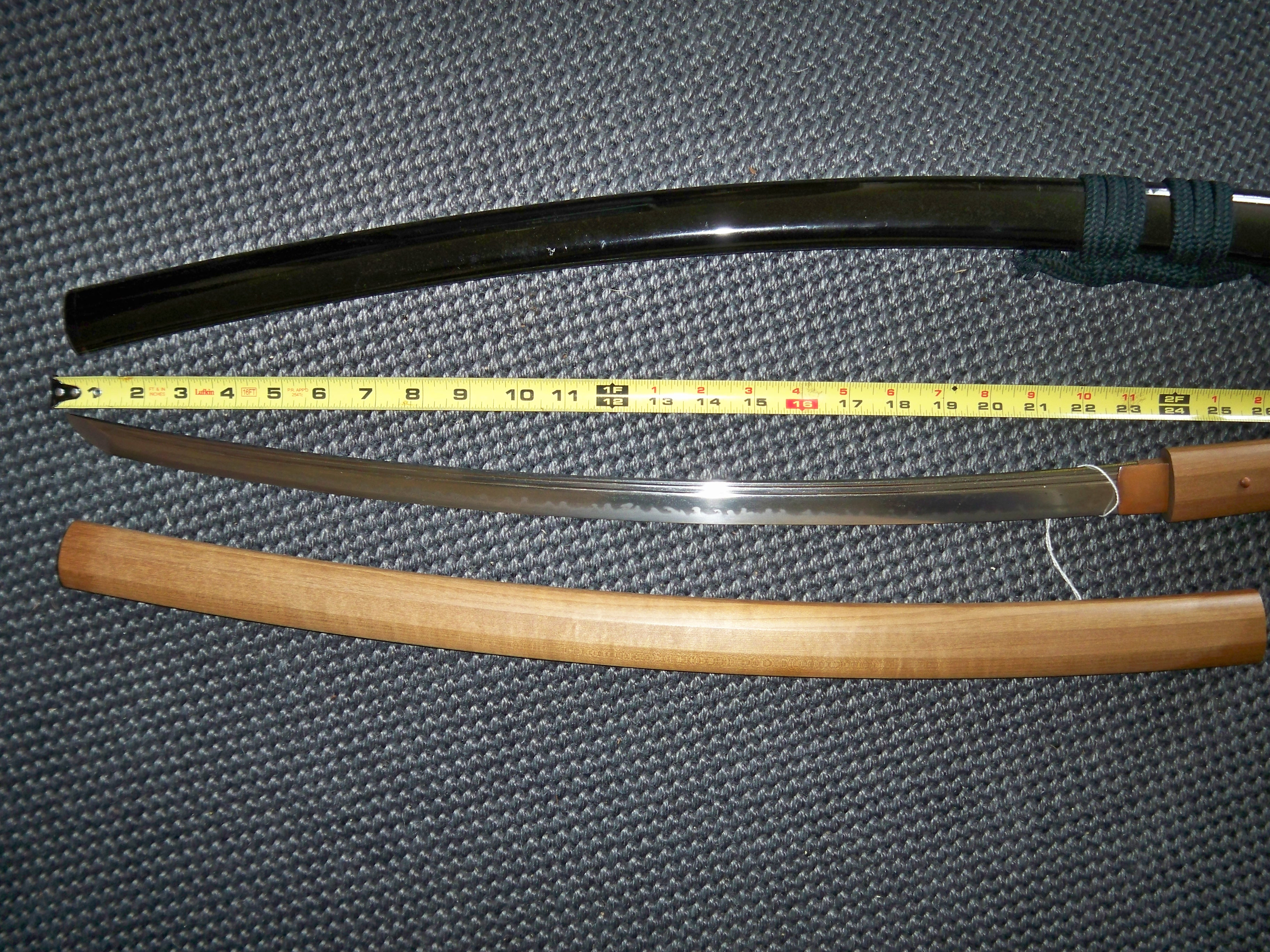 Antique Japanese katana shown with a plain wood scabbard saya from a shirasaya and a black lacquered 'saya from a koshirae.